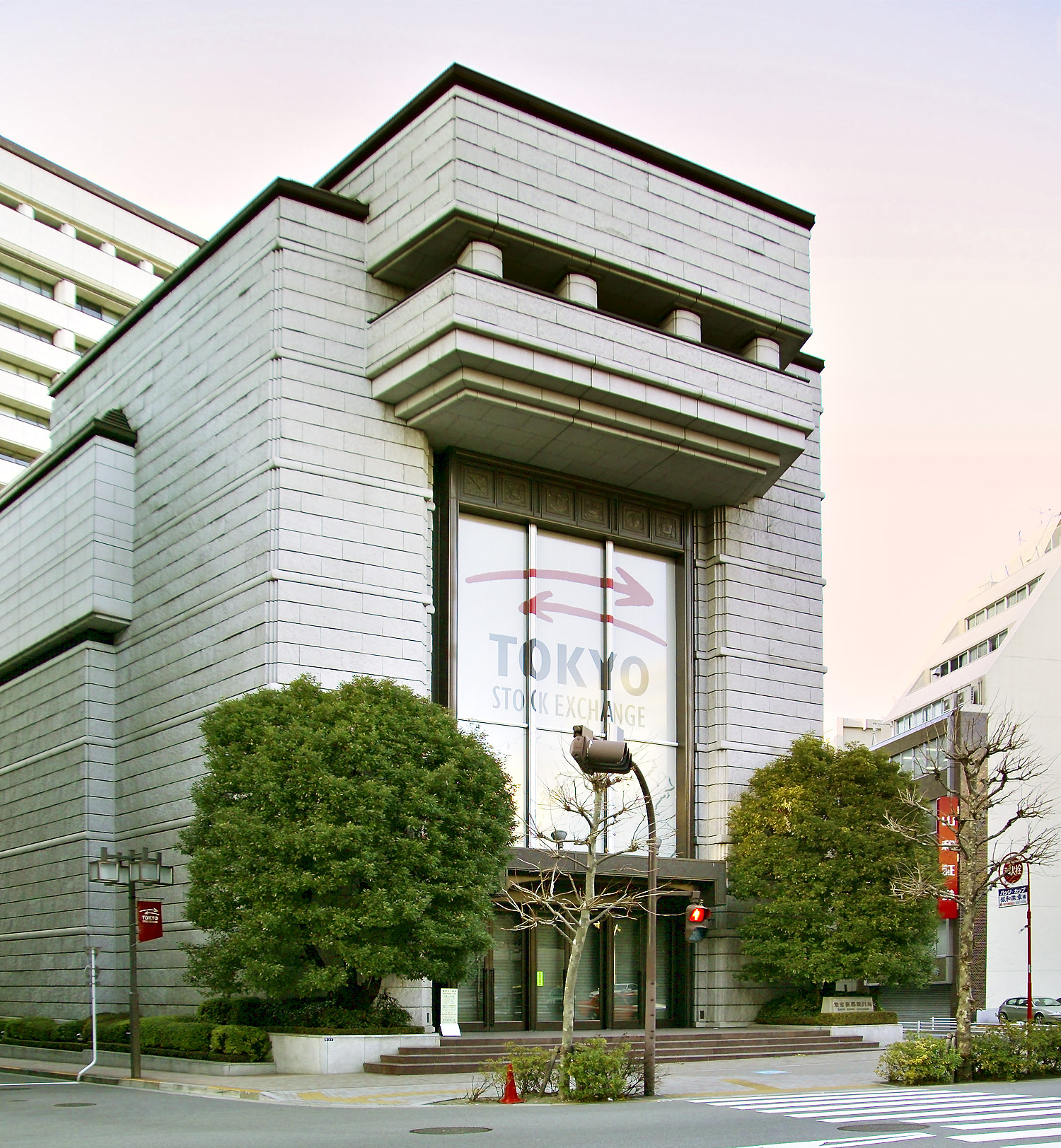 This photo shows the Tokyo Stock Exchange, Japan.